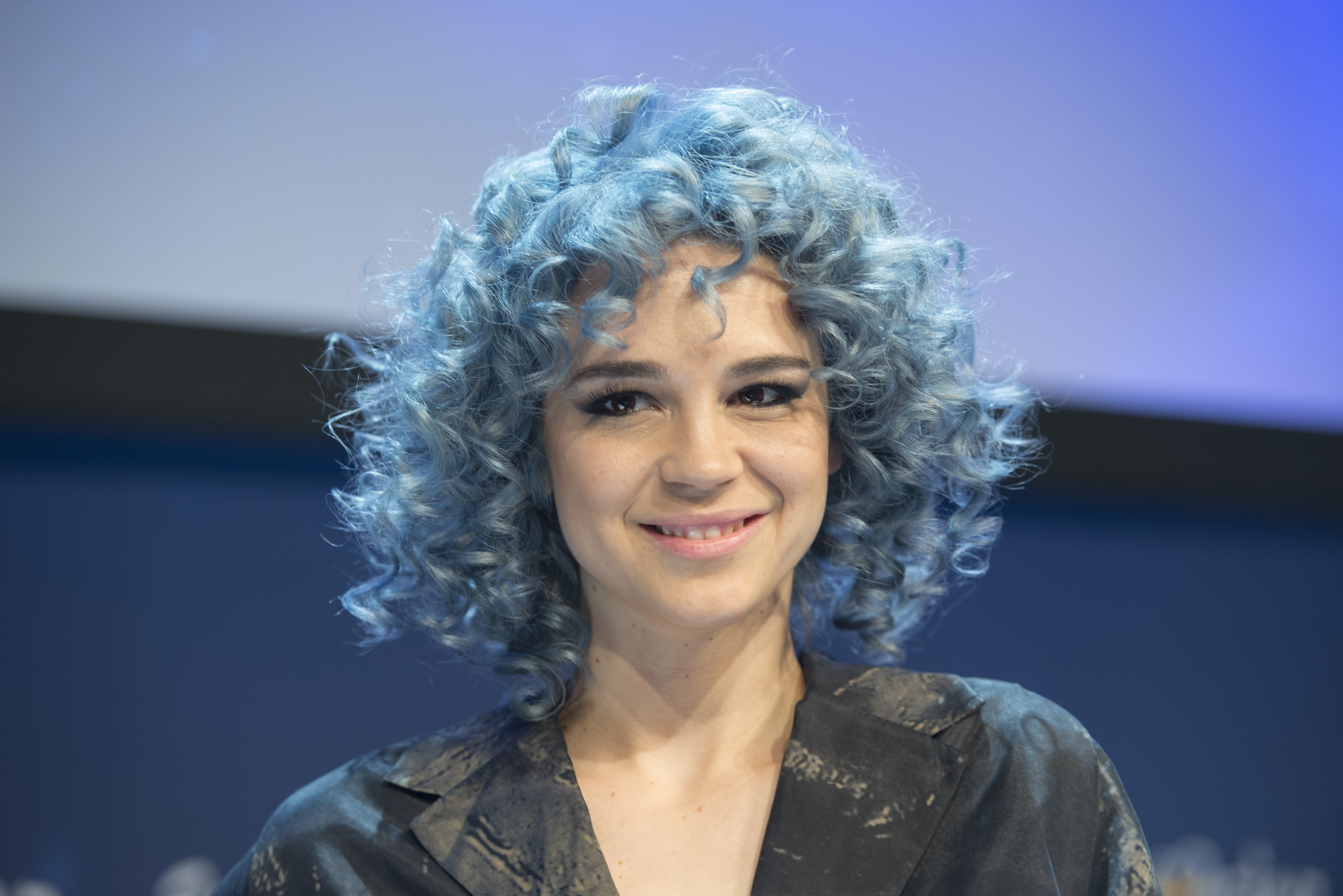 Rykka at a Meet & Greet during the Eurovision Song Contest 2016 in Stockholm. (Help translate this text)